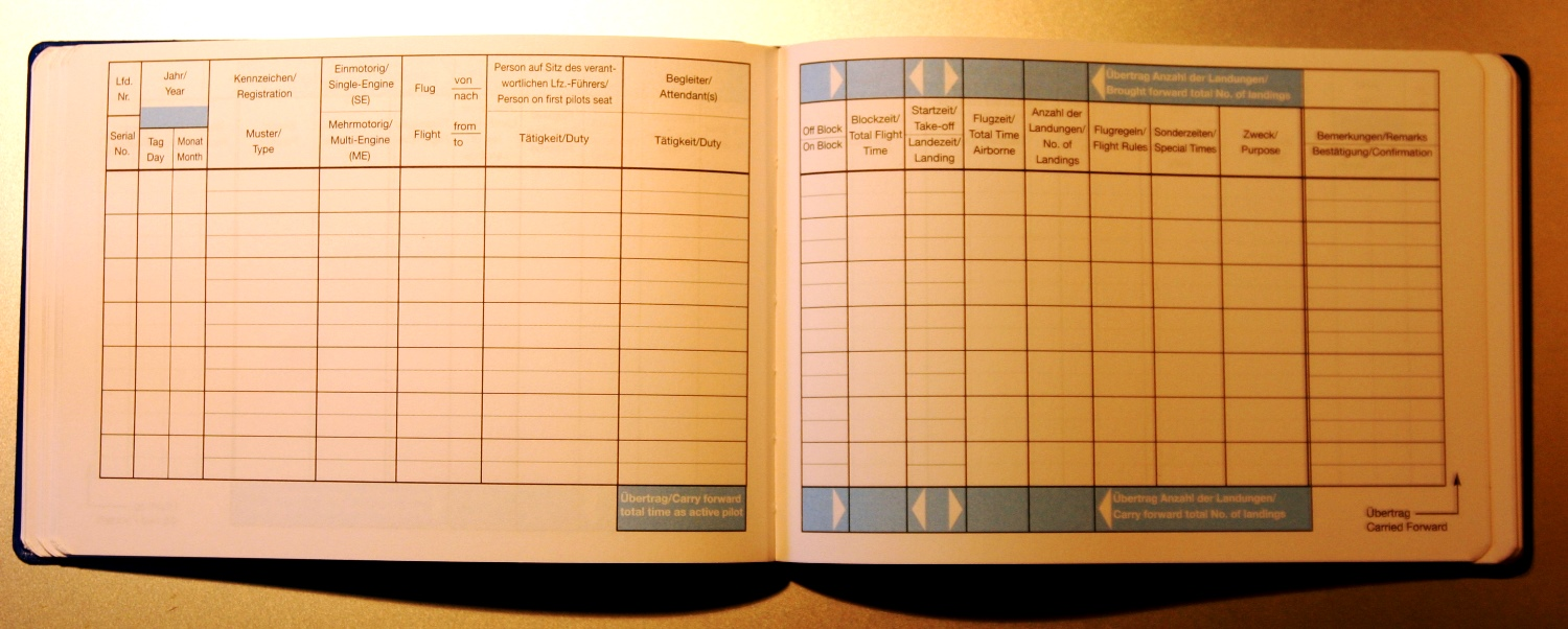 Page of German Pilot Log